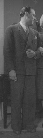 Tino Tori-actor